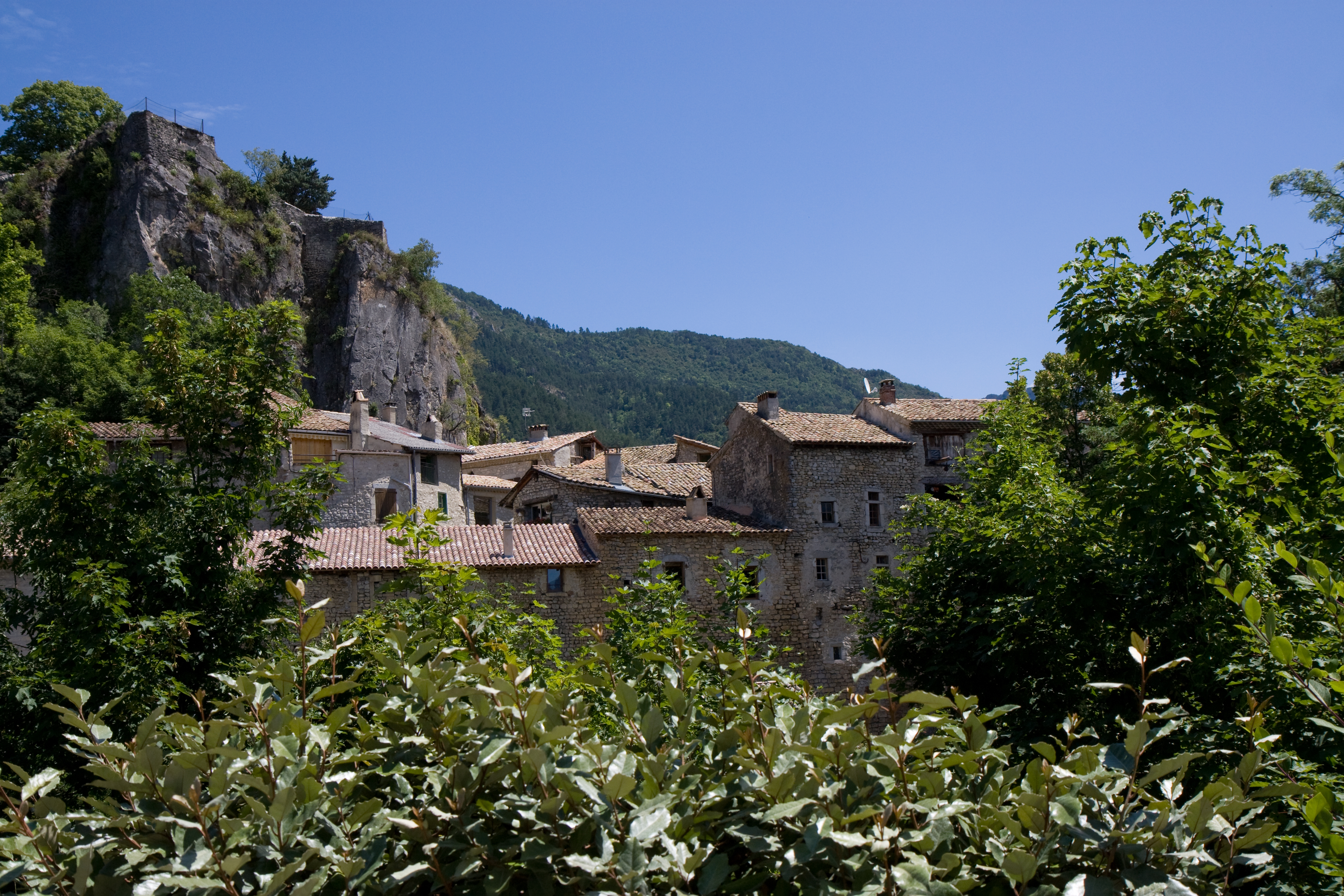 Village of Chatillôn-en-Diois, Rhone-Alpes, France.